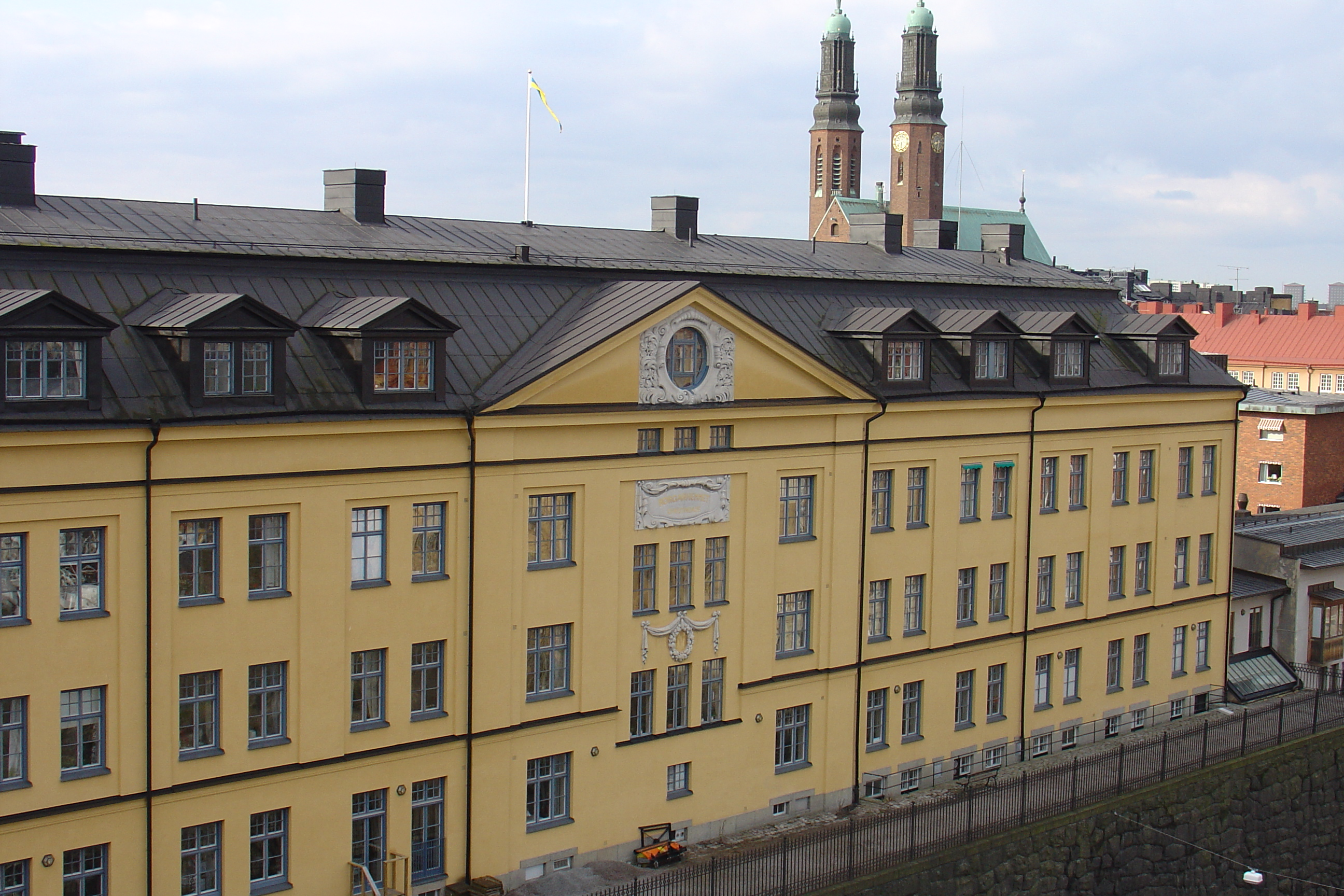 Borgarhemmet in Stockholm